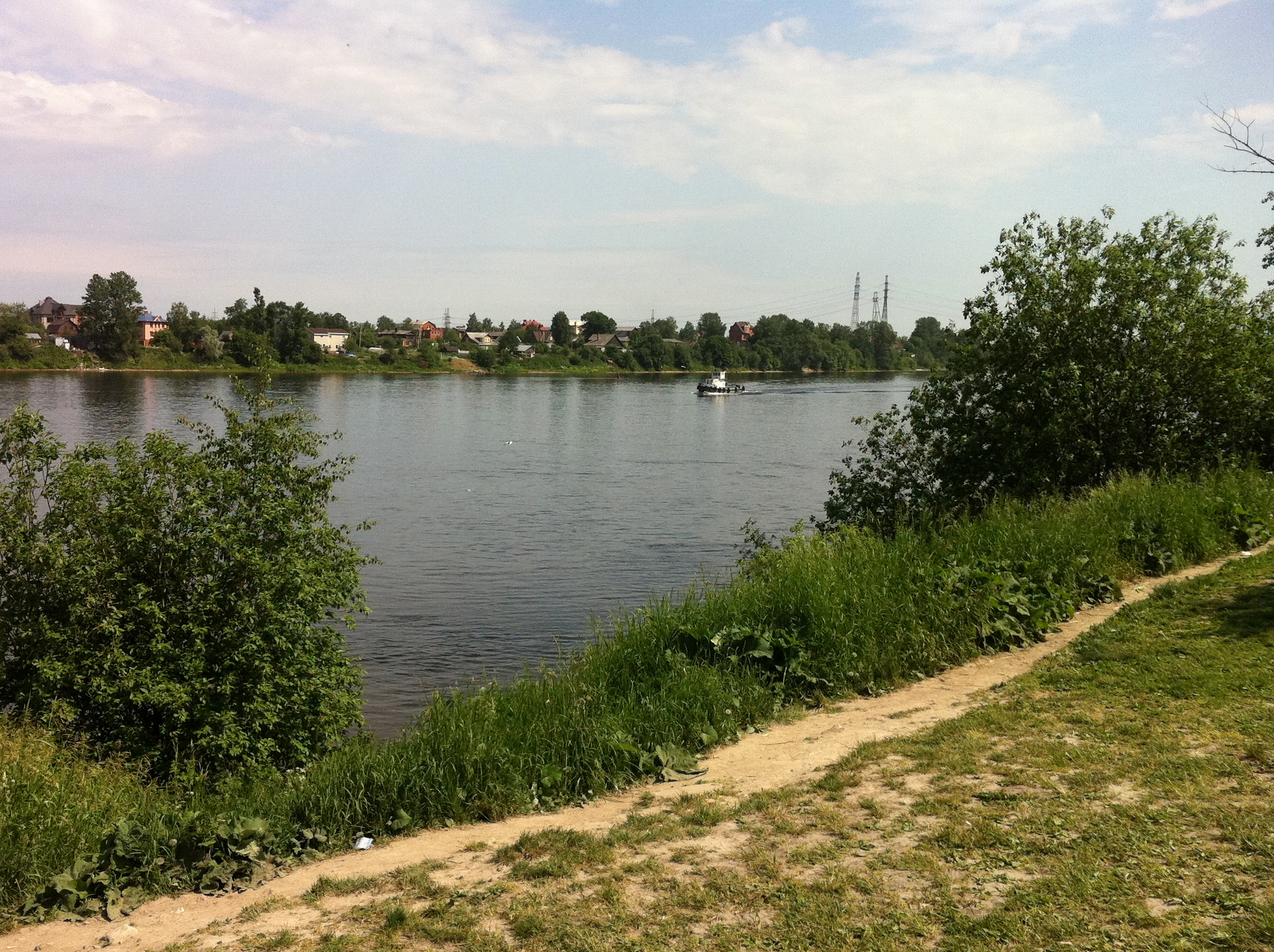 Neva river at Rybackoe district